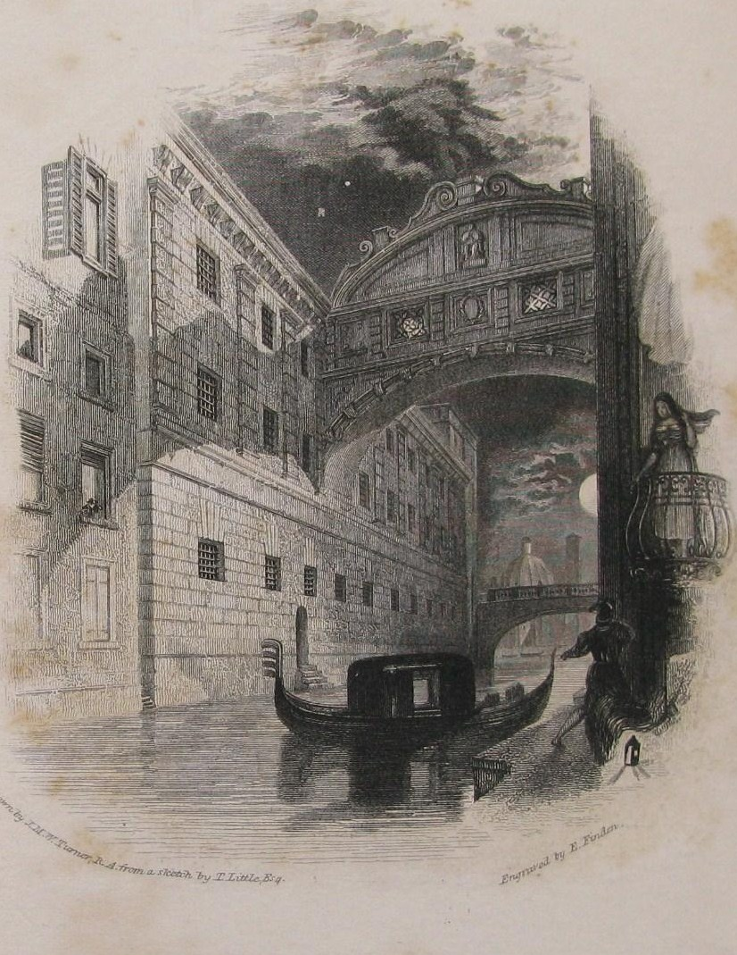 Illustration from John Murray's edition of Byrons's works